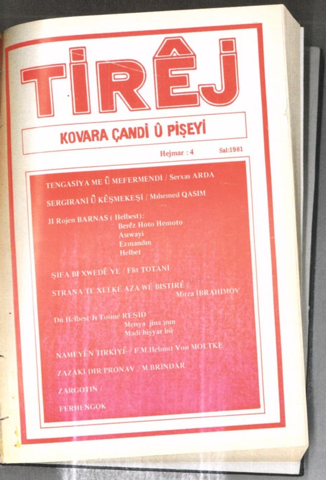 Tirêj is a literary magazine published between 1979 and 1980 in Kurdish language (Kurmanci and Zazaki).